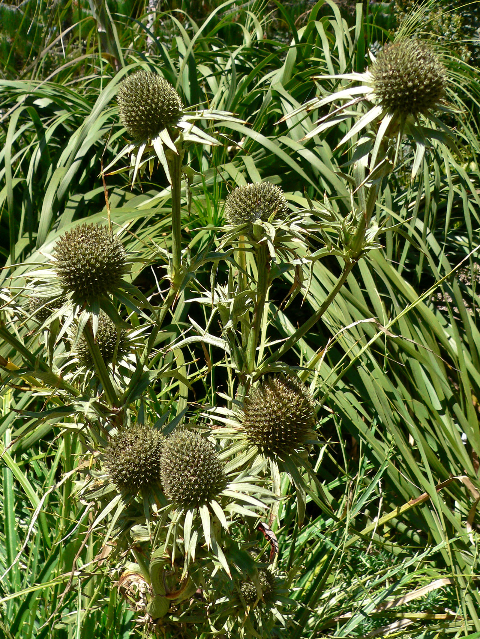 Eryngium alternatum at the University of California Botanical Garden, Berkeley, California